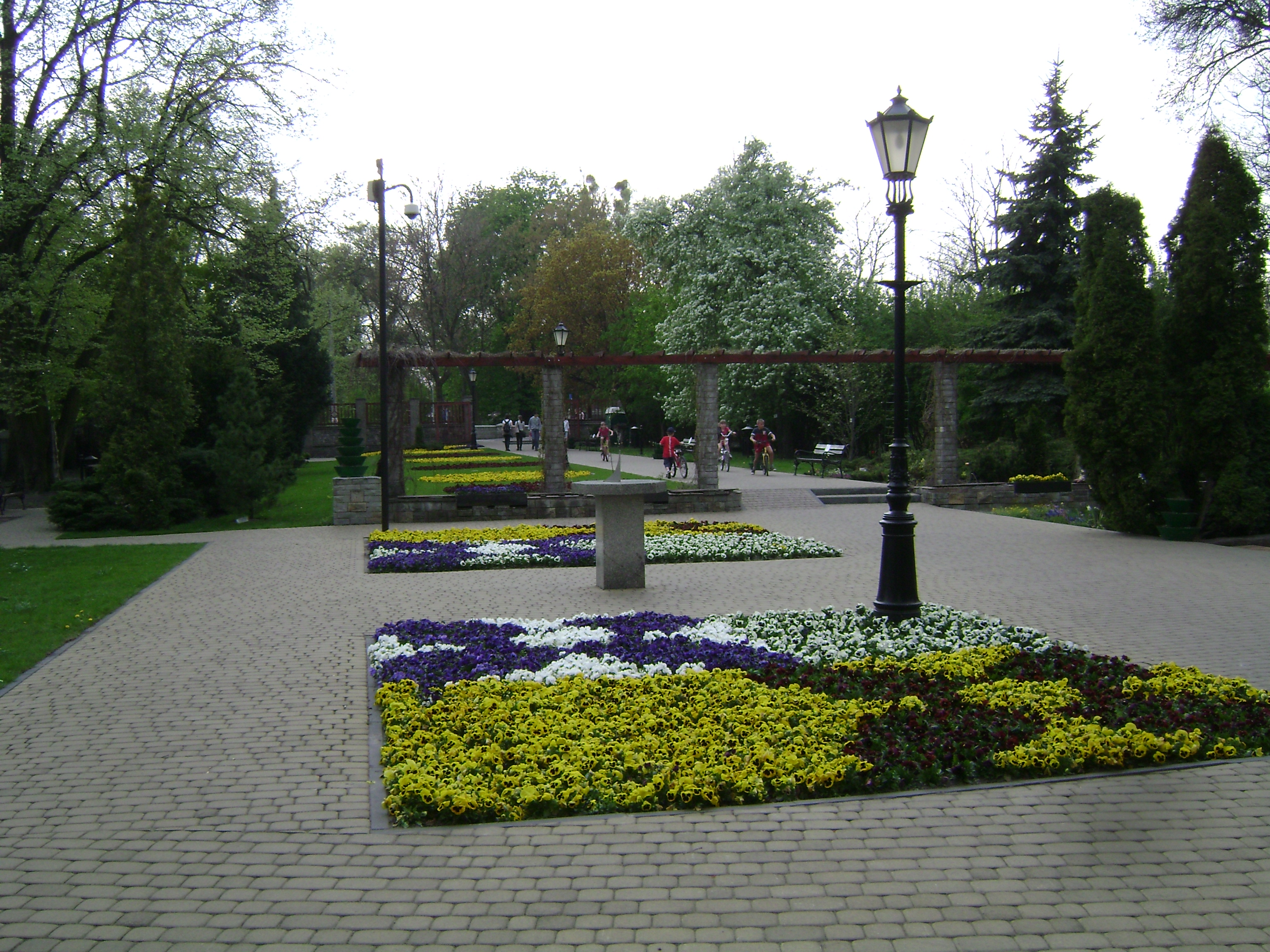 Botanical Garden in Grudziądz